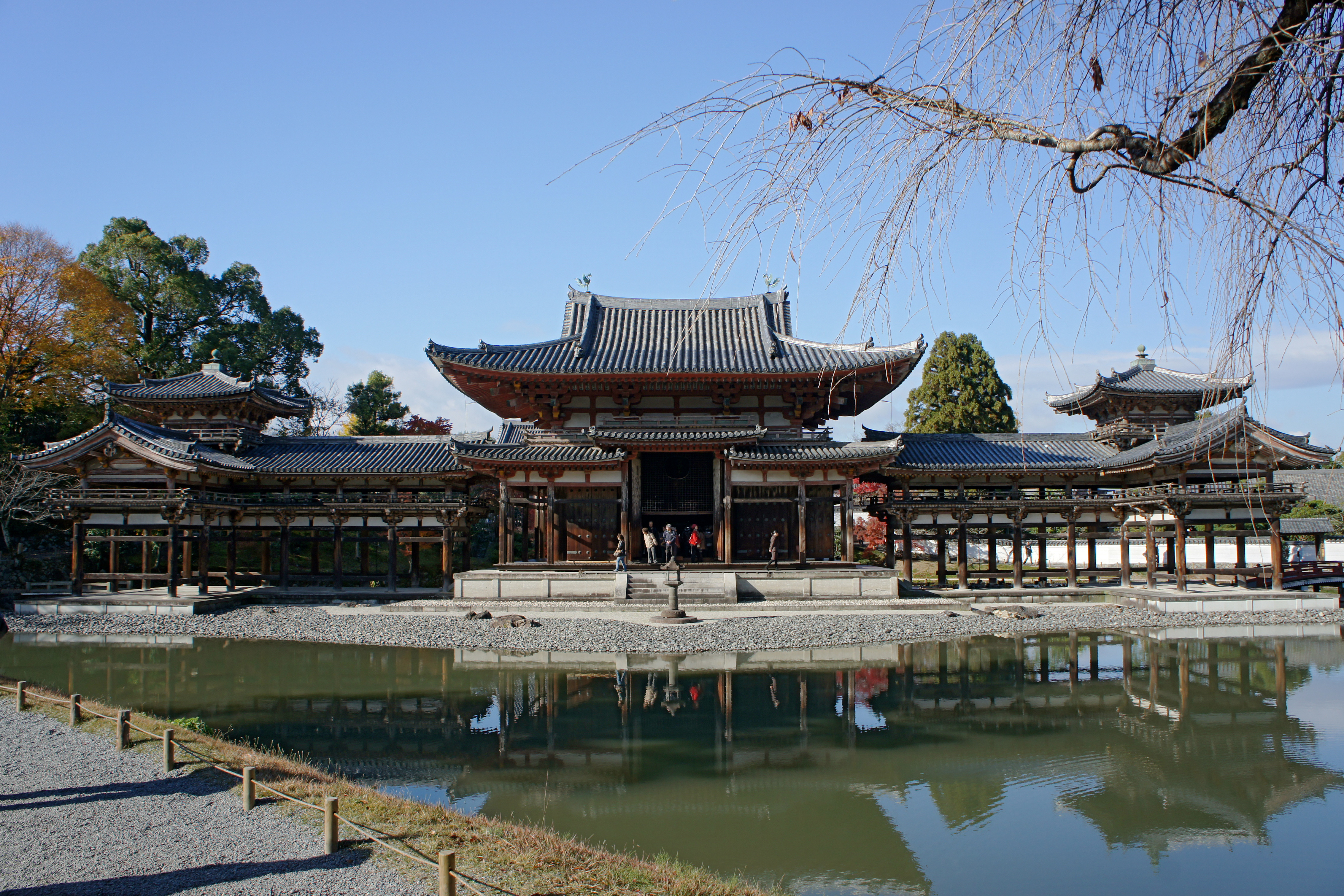 Byōdō-in's Phoenix Hall is a Japan's National Treasure in Uji, Kyoto prefecture, Japan It was built in 1153. Byōdō-in was registered as part of the UNESCO World Heritage Site "Historic monuments of ancient Kyoto".